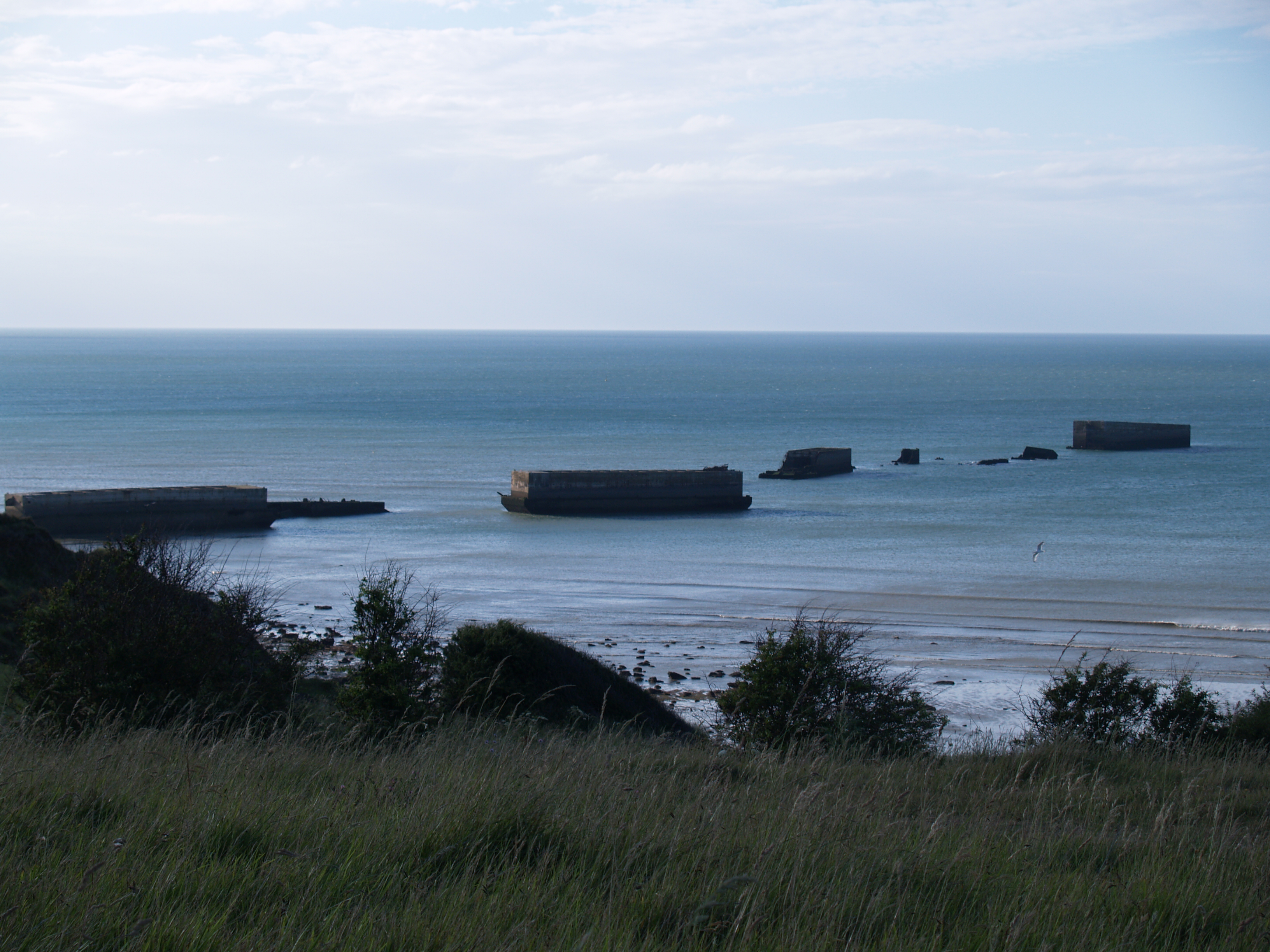 Mulberry harbour